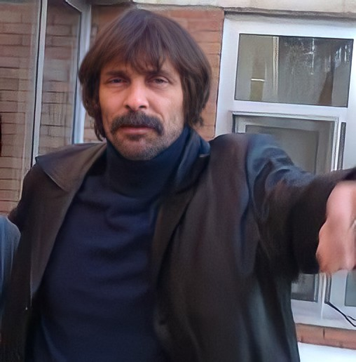 Erdal Beşikçioğlu, is a Turkish actor